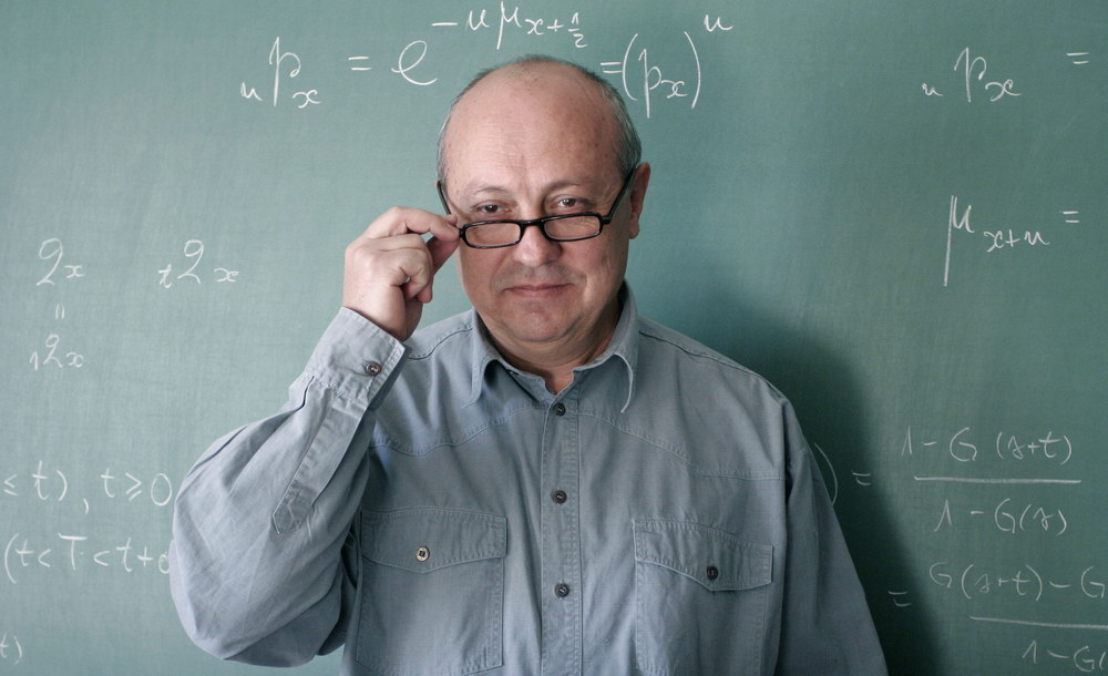 licna fotografija